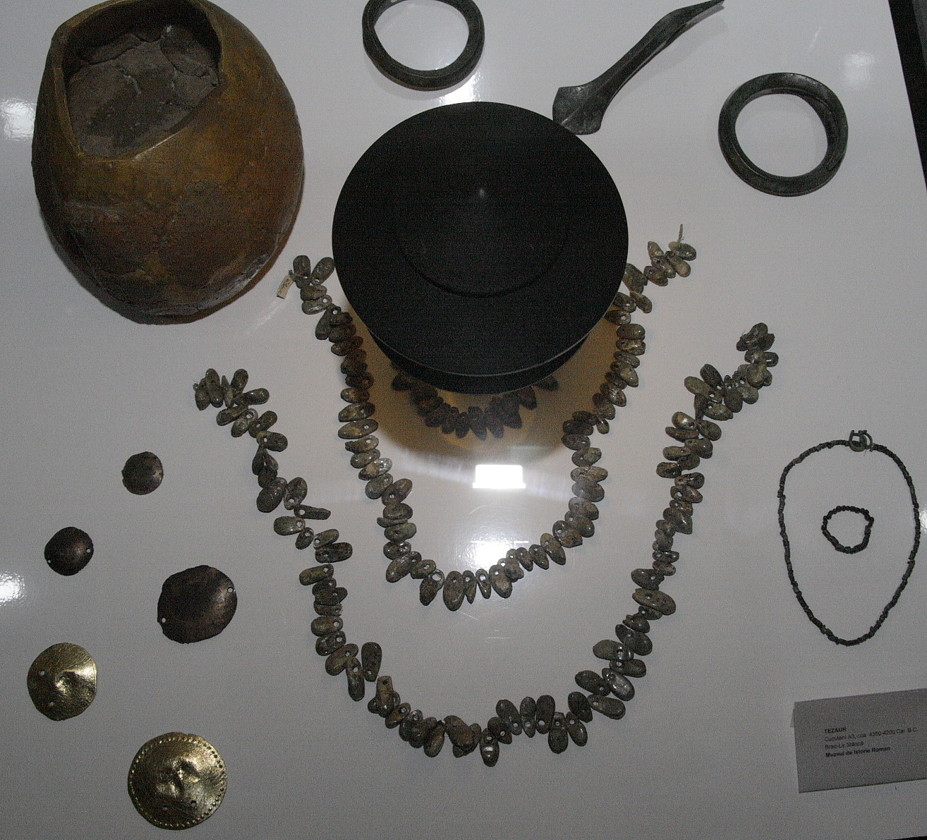 Cucuteni Treasure. Piatra neamt Museum.